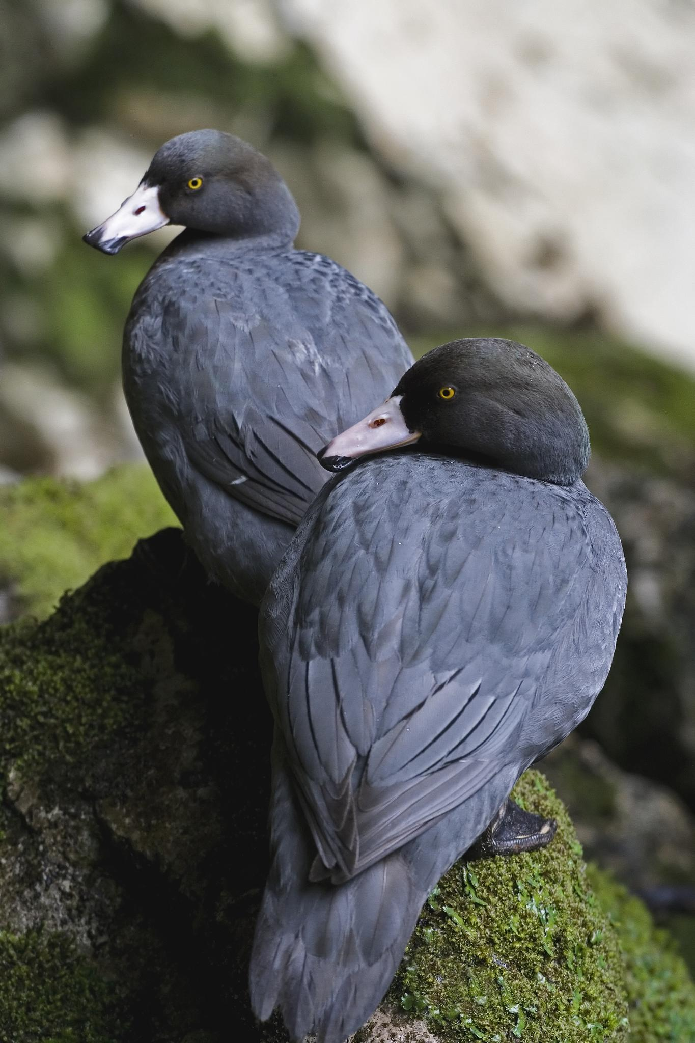 Blue Ducks (Hymenolaimus malacorhynchos) / Whio. South Island, New Zealand.